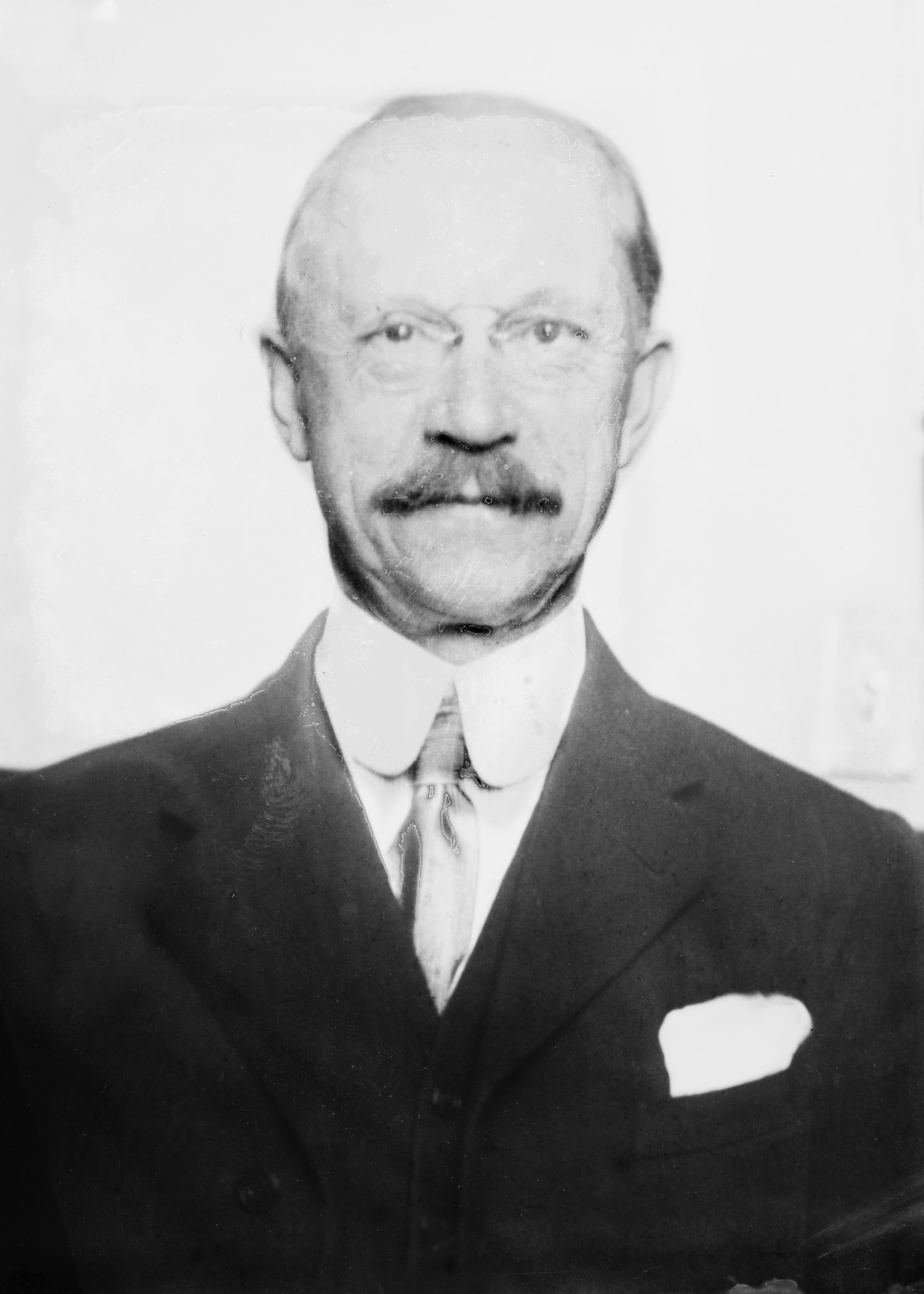 Charles Millard Pratt circa 1915